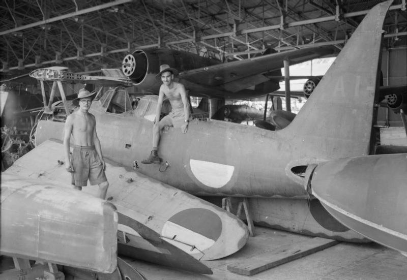 Corporal Ralph Hayden and Leading Aircraftman Harry Pearce of No. 80 Squadron RAF amongst parts of a Mitsubishi F1M, bearing Indonesian markings, at an airfield and seaplane base in Surabaya (Soerabaja), Java, January 1946. In the background are Kawanishi N1K floatplanes.